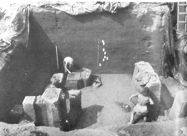 Excavation work at the Icehouse Bottom site near the U.S. city of Vonore, Tennessee. This site, now submerged under Tellico Lake, provided evidence of habitation by Native Americans as early as 7500 B.C., during the Late Archaic period.